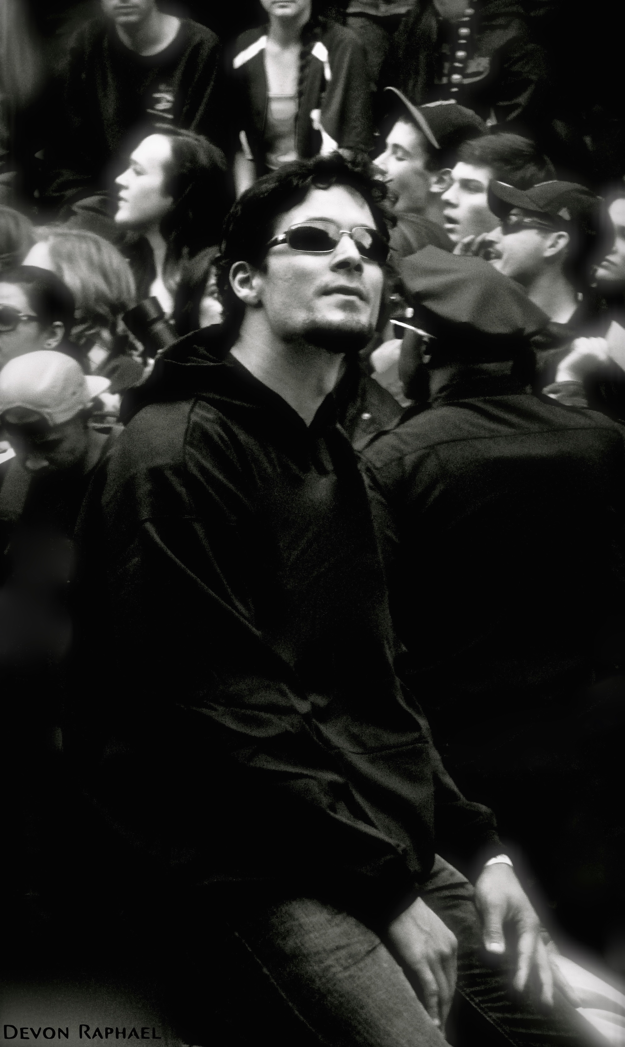 This black and white picture was taken by myself on October 31, 2012, during the San Francisco Giant's Parade celibration.